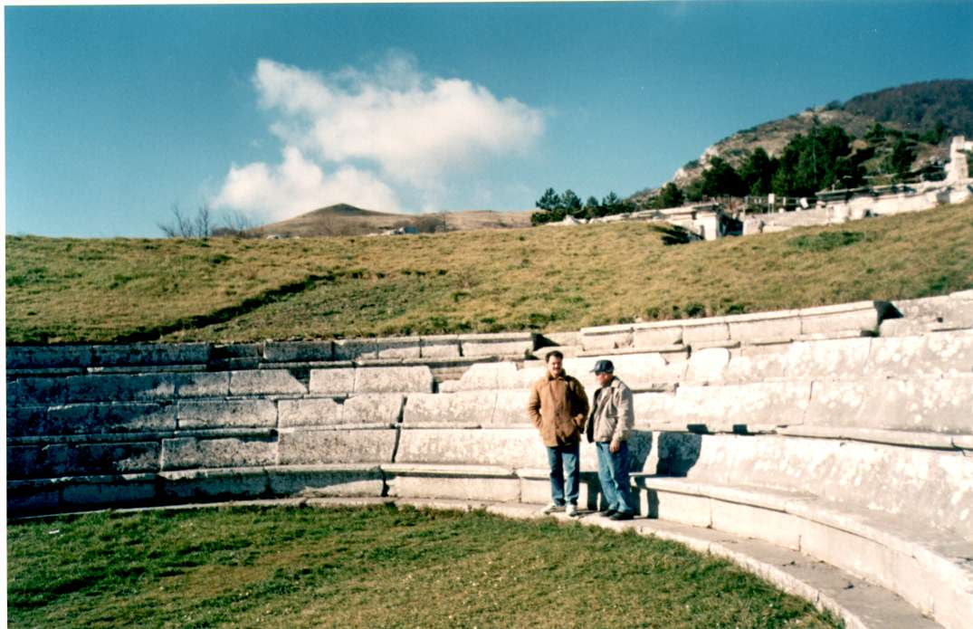 The Samnite Theatre of Pietrabbondante in the Province of Isernia, Molise, Italy.